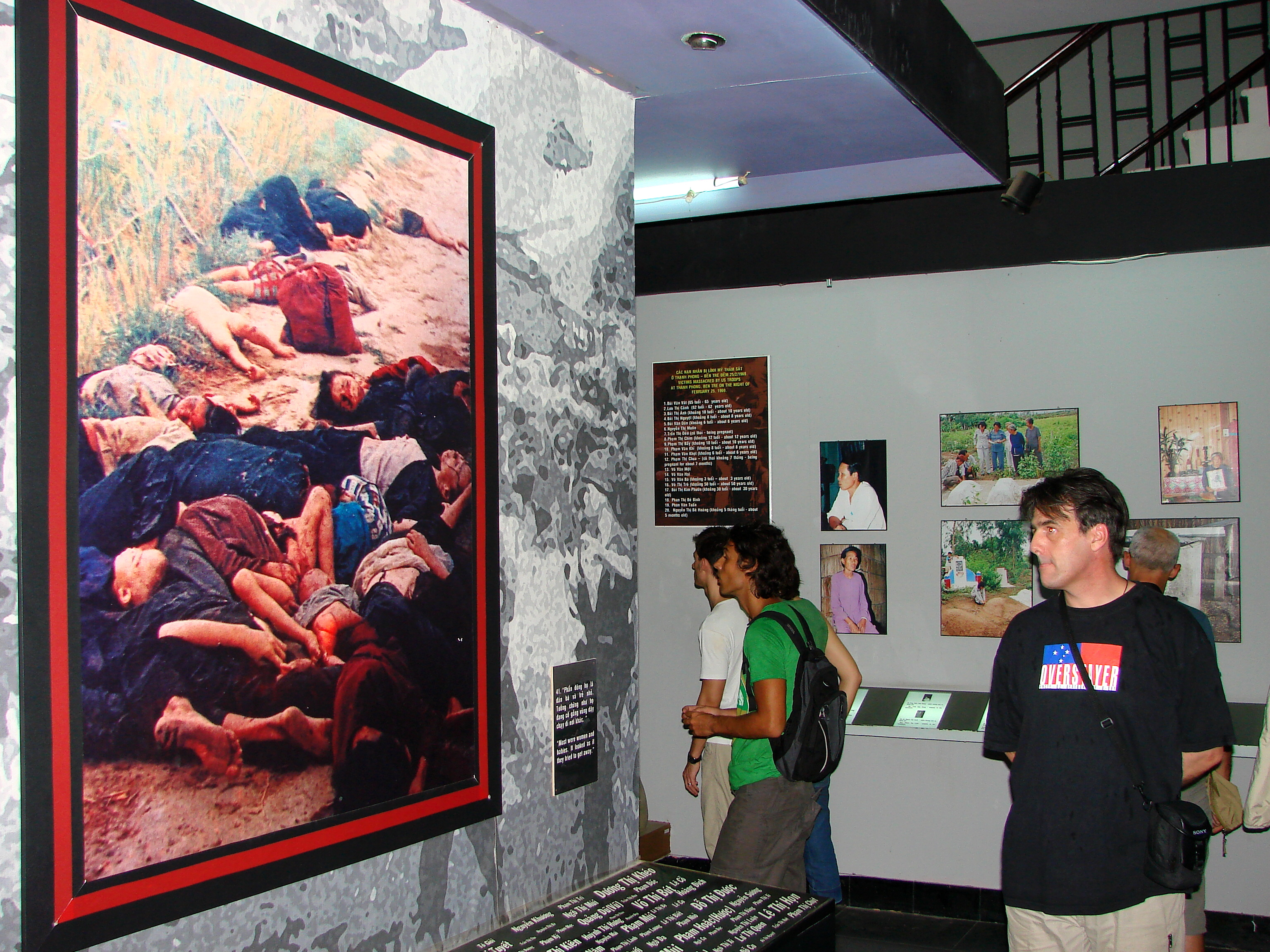 Visitors tour the War Remnants Museum in Hanoi, Vietnam. June 2009. Note: the wall photo at left is one of the images of the My Lai massacre aftermath, taken by US Army photographer Ronald Haeberle on site. Taken in the course of his official government duties, it is copyright-cleared on Wikimedia Commons -- search Haeberle.